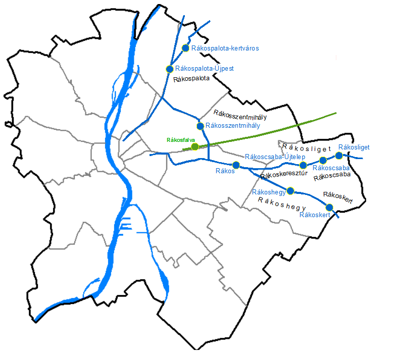 Geographic names in Budapest with Rákos-tag